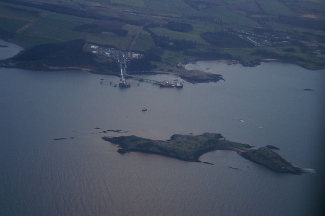 Inchcolm With the gas terminal on the Fife coast to the north; taken from a plane leaving Edinburgh Airport.